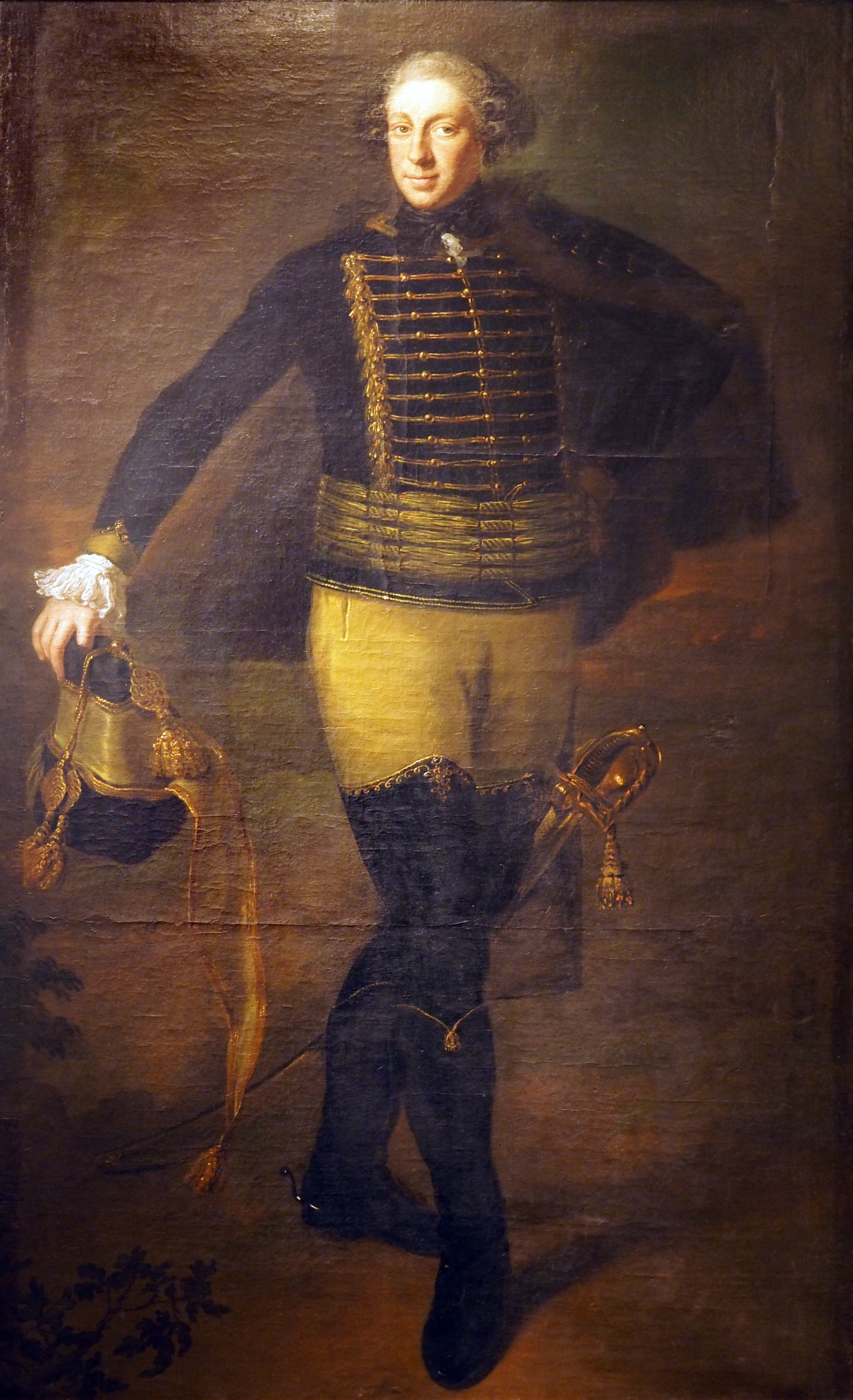 Earl of Putbus